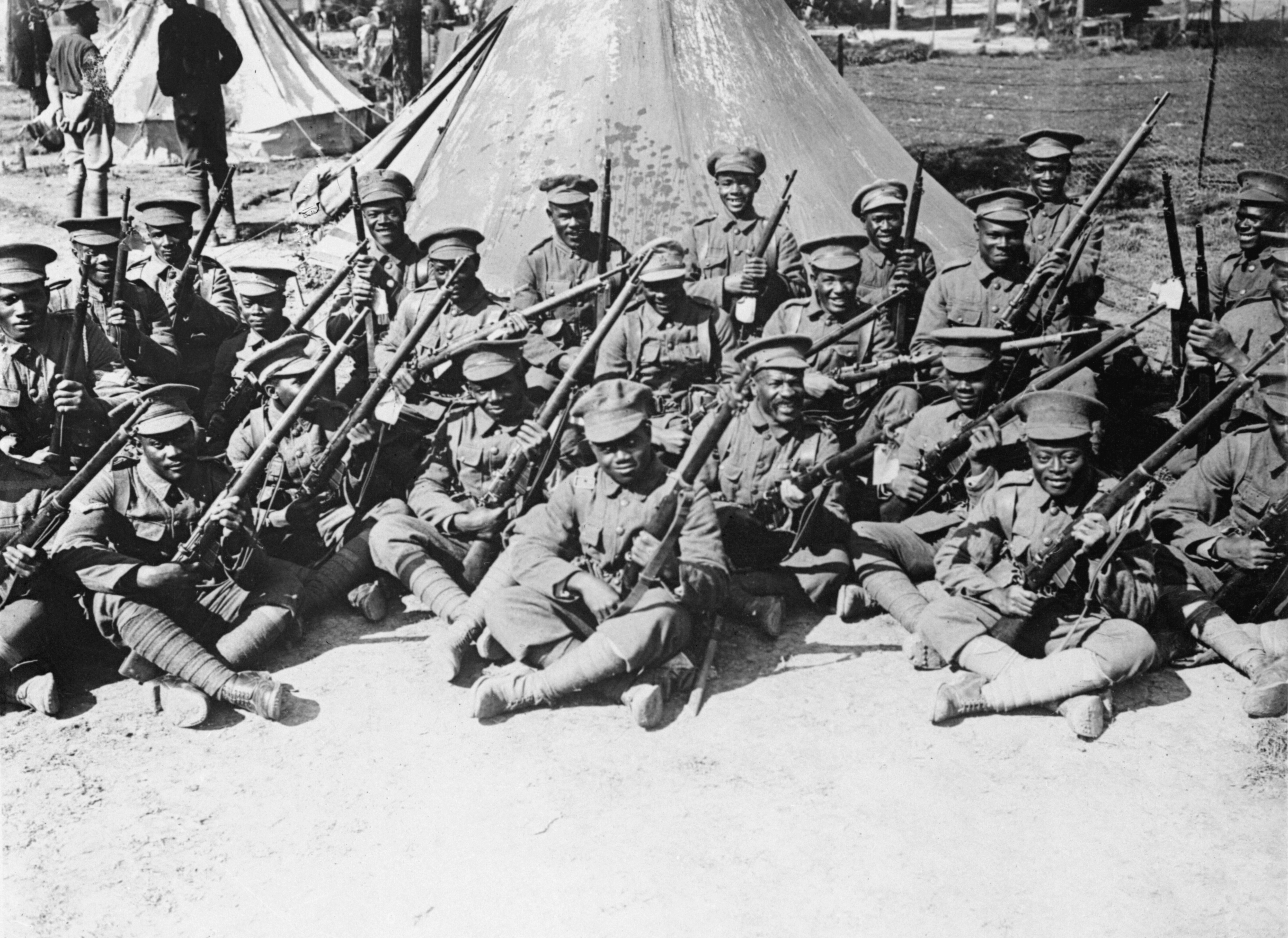 THE SOMME OFFENSIVE ON THE WESTERN FRONT, 1916 : The British West Indies Regiment in camp on the Albert - Amiens Road, September 1916.